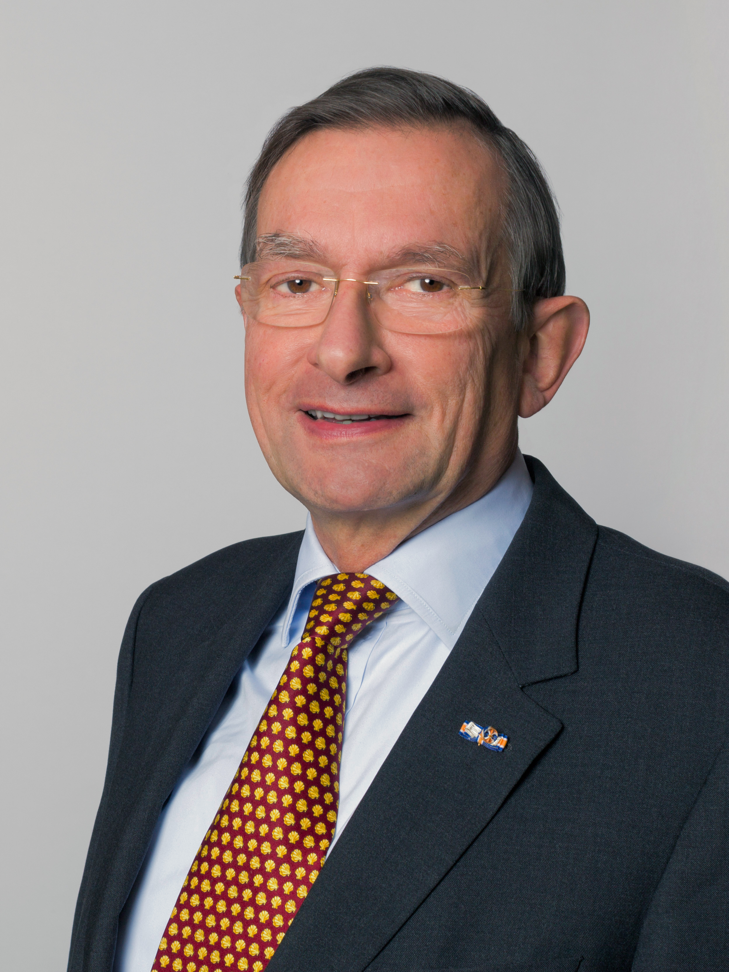 Jeroen van der Veer. Chairman Supervisory Board